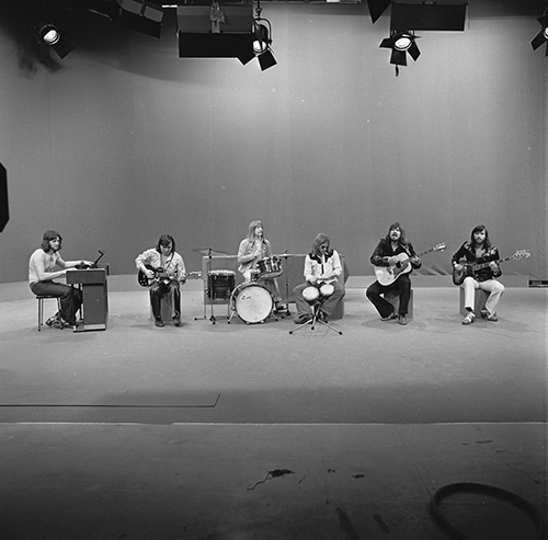 The Cats in AVRO's TopPop (Dutch television show) in 1974